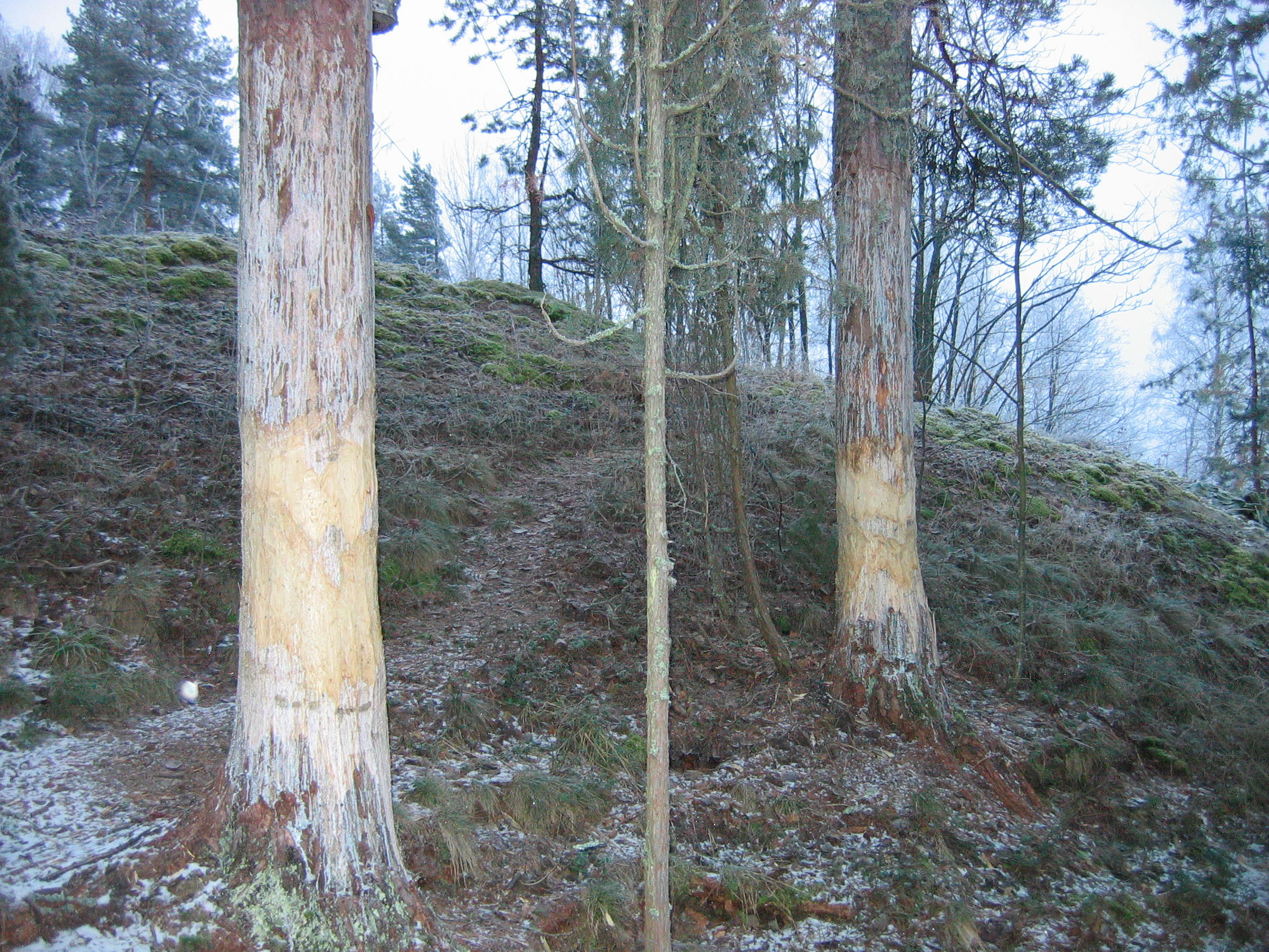 Pine trees,the bark of which has been partly removed for drying.